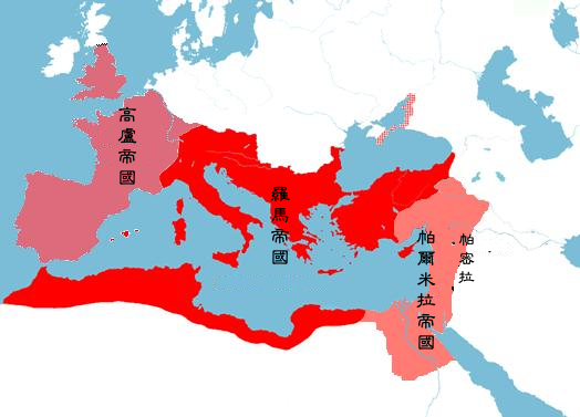 The Roman World at 271 A.D.